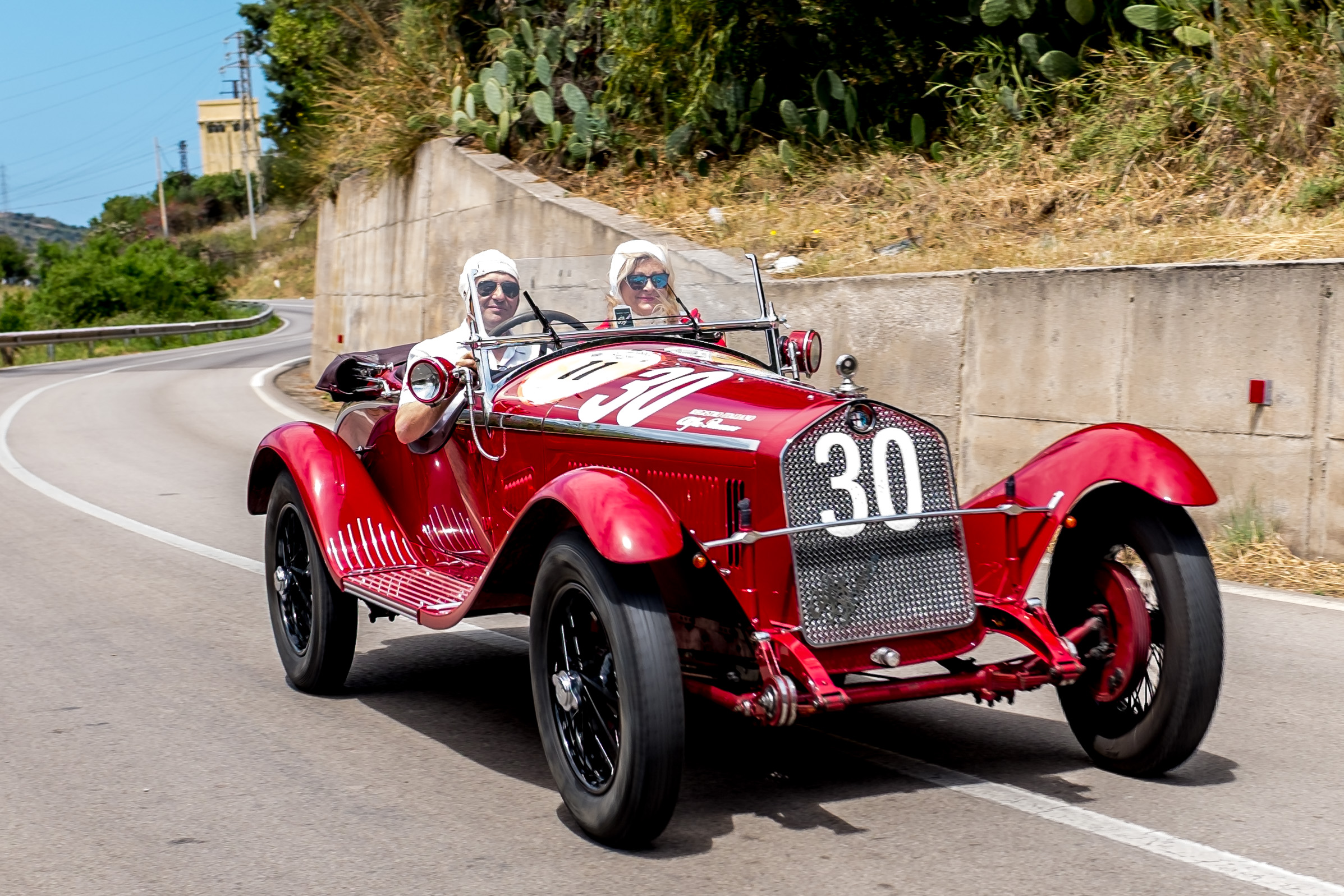 1928 Alfa Romeo 6C 1750 SS, entry #11 at the 100th Edition of Targa Florio on Sicily on 8 May 2016. The entry list[1] claims this is a 1924 Alfa Romeo RL TF, but it does not seem right.